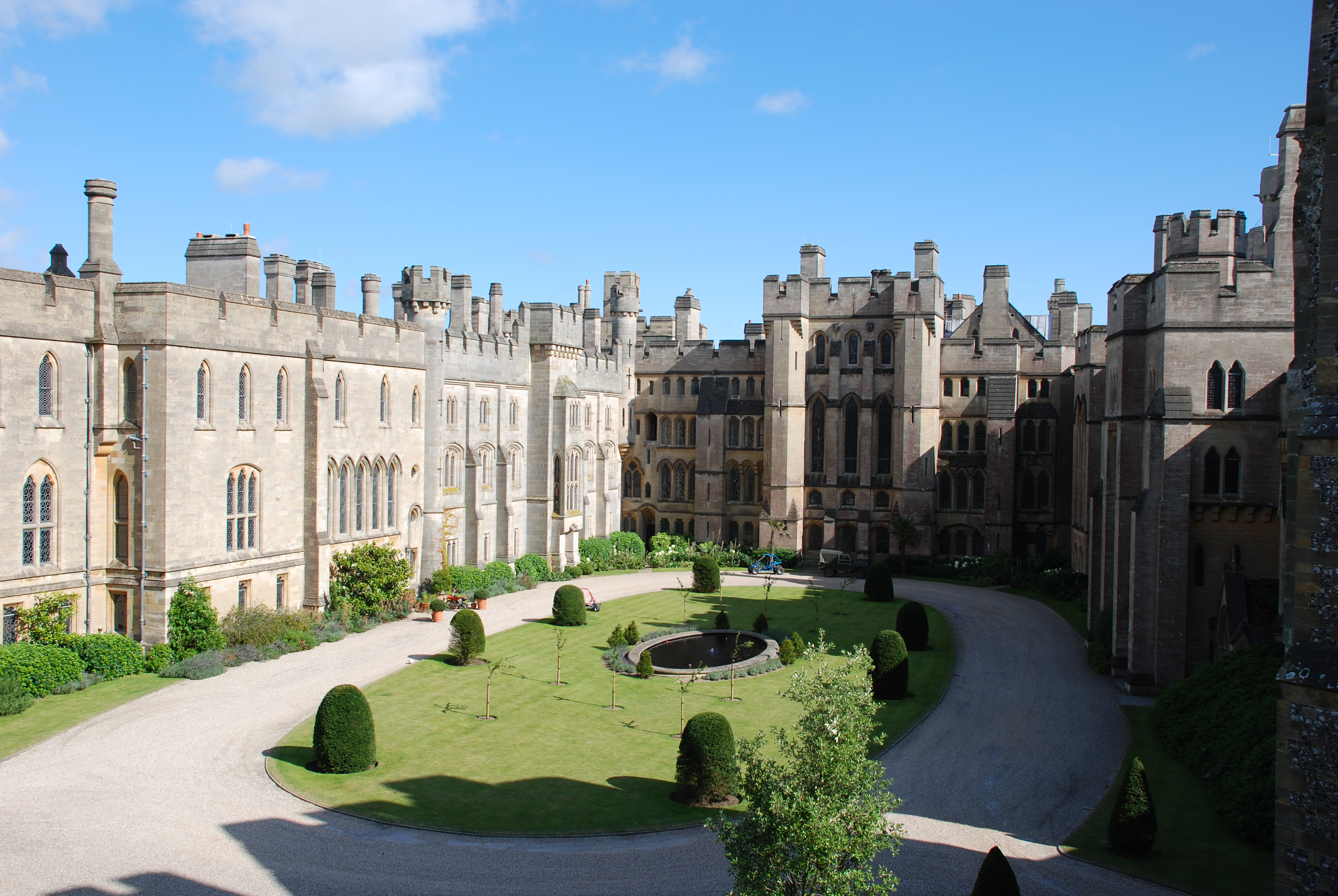 The courtyard of Arundel Castle, West Sussex, England.